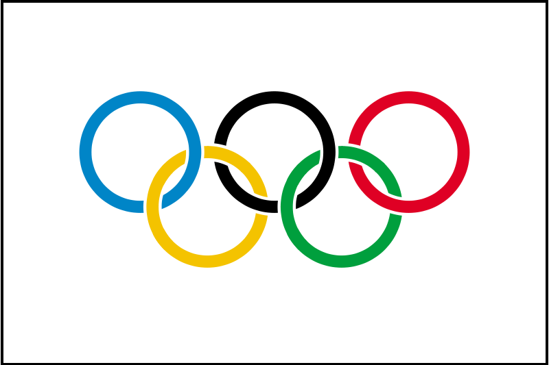 Olympic Movement flag Proportions 2:3, created 1913, adopted 1914, first used 1920. Colors as per blue: PMS 3005C yellow: PMS 137C black: PMS 426C green: PMS 355C red: PMS 192C Dimensions of the rings taken from